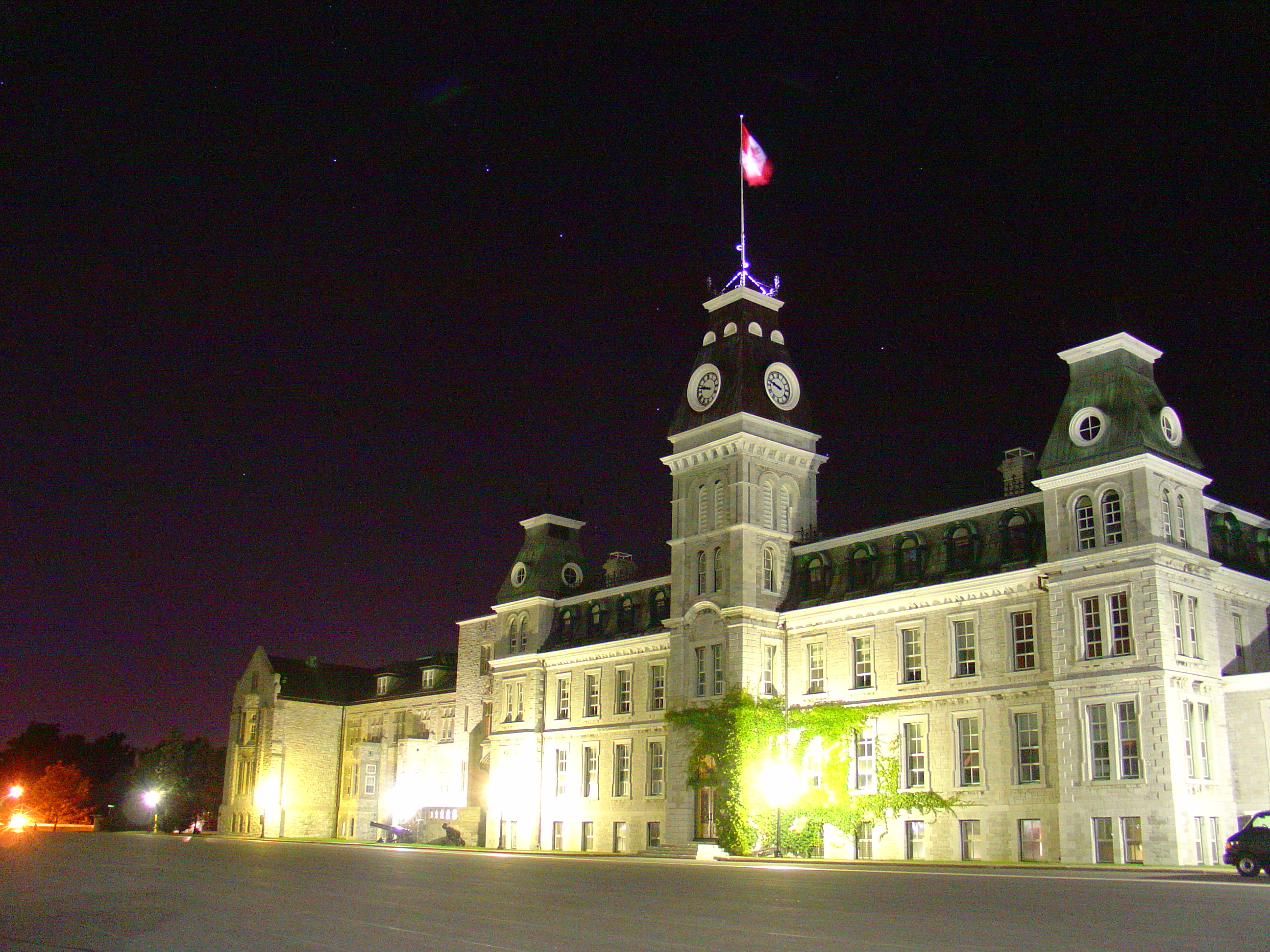 Please, have this description accessible to all by translating it in different languages.